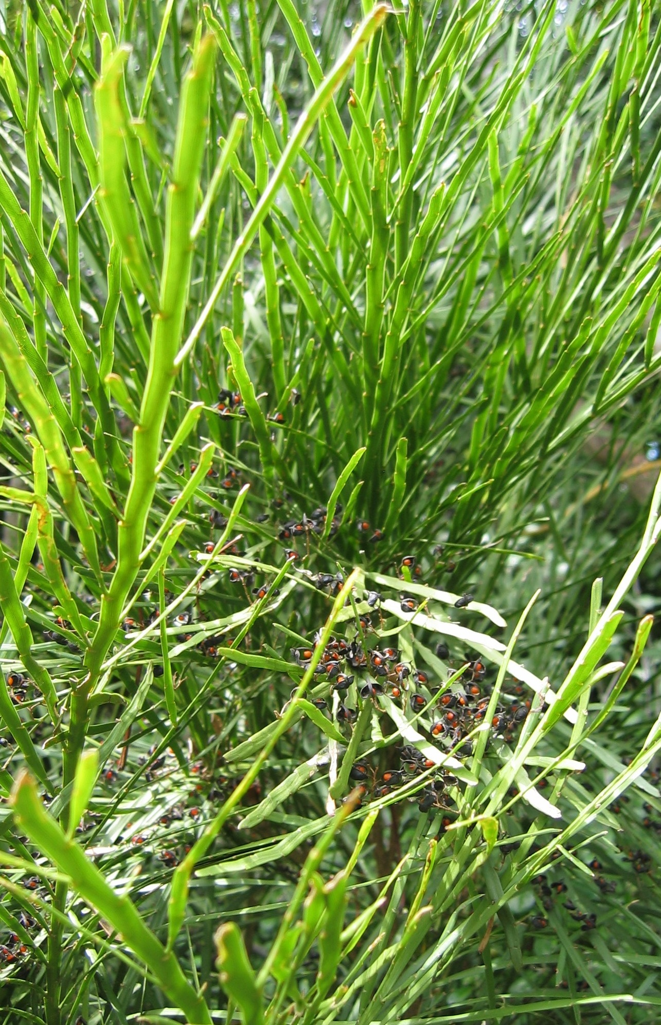 Leaves and berries of North Island Broom (Carmichaelia aligera).